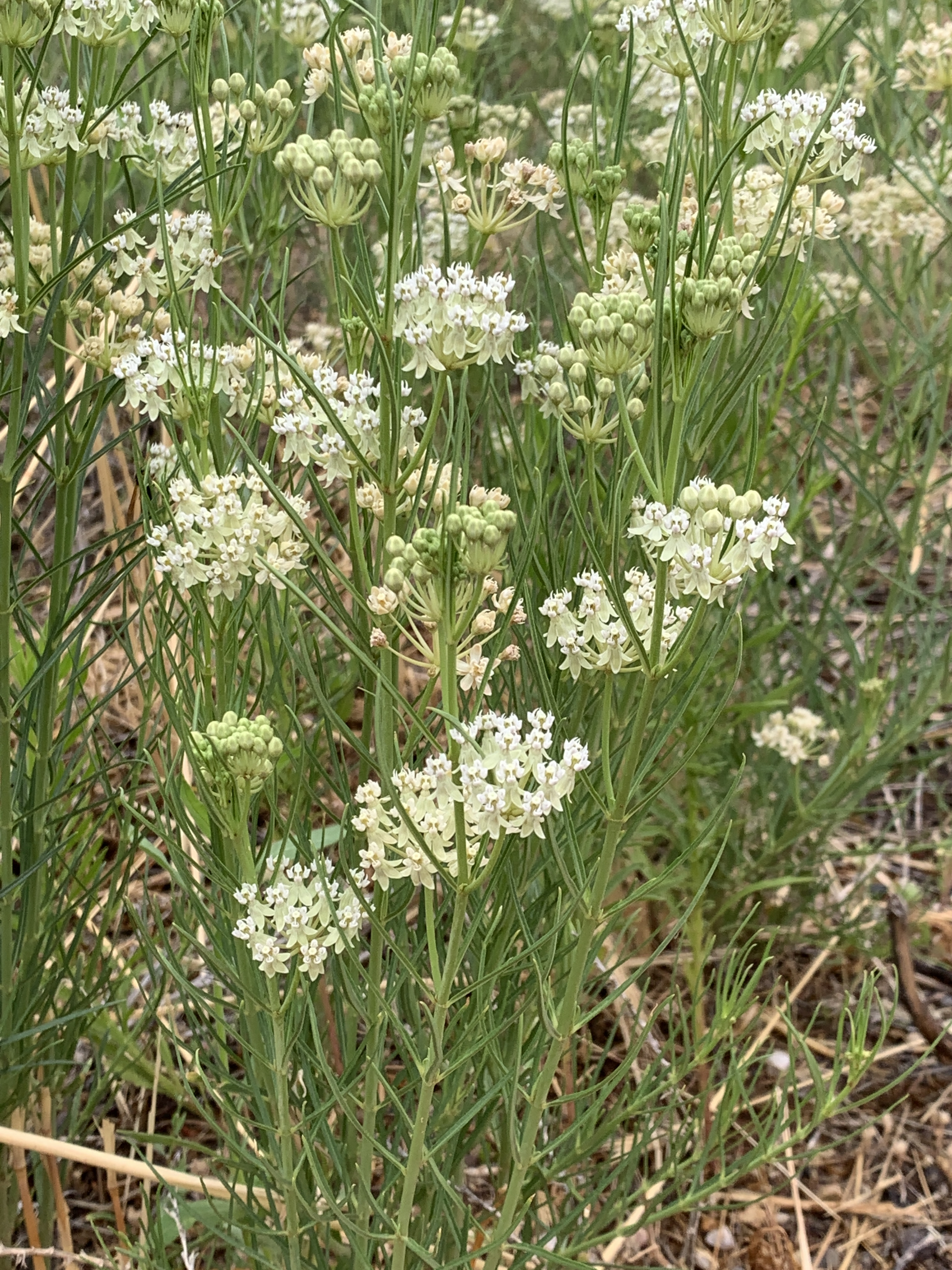 Location: Cane Beds Rd. Arizona July 2019